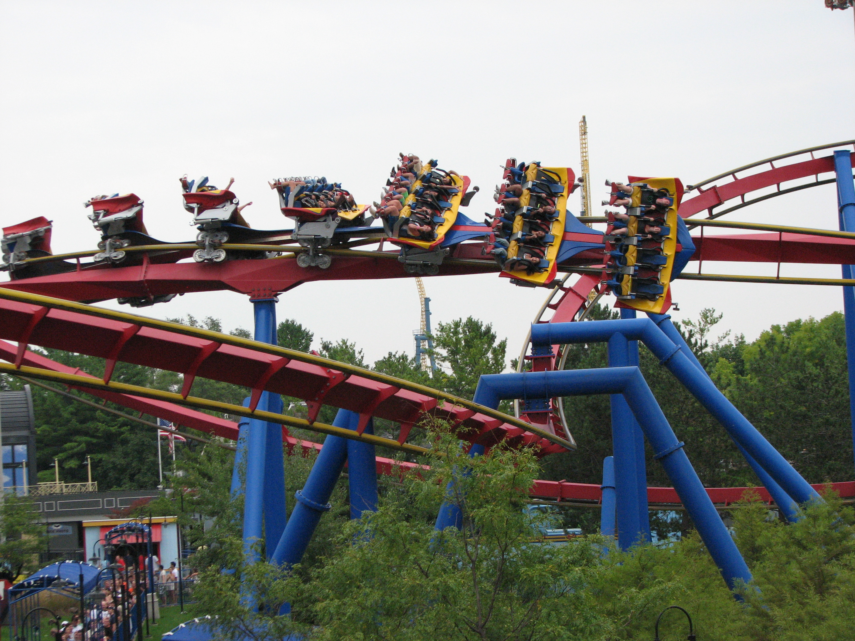 In-line twist